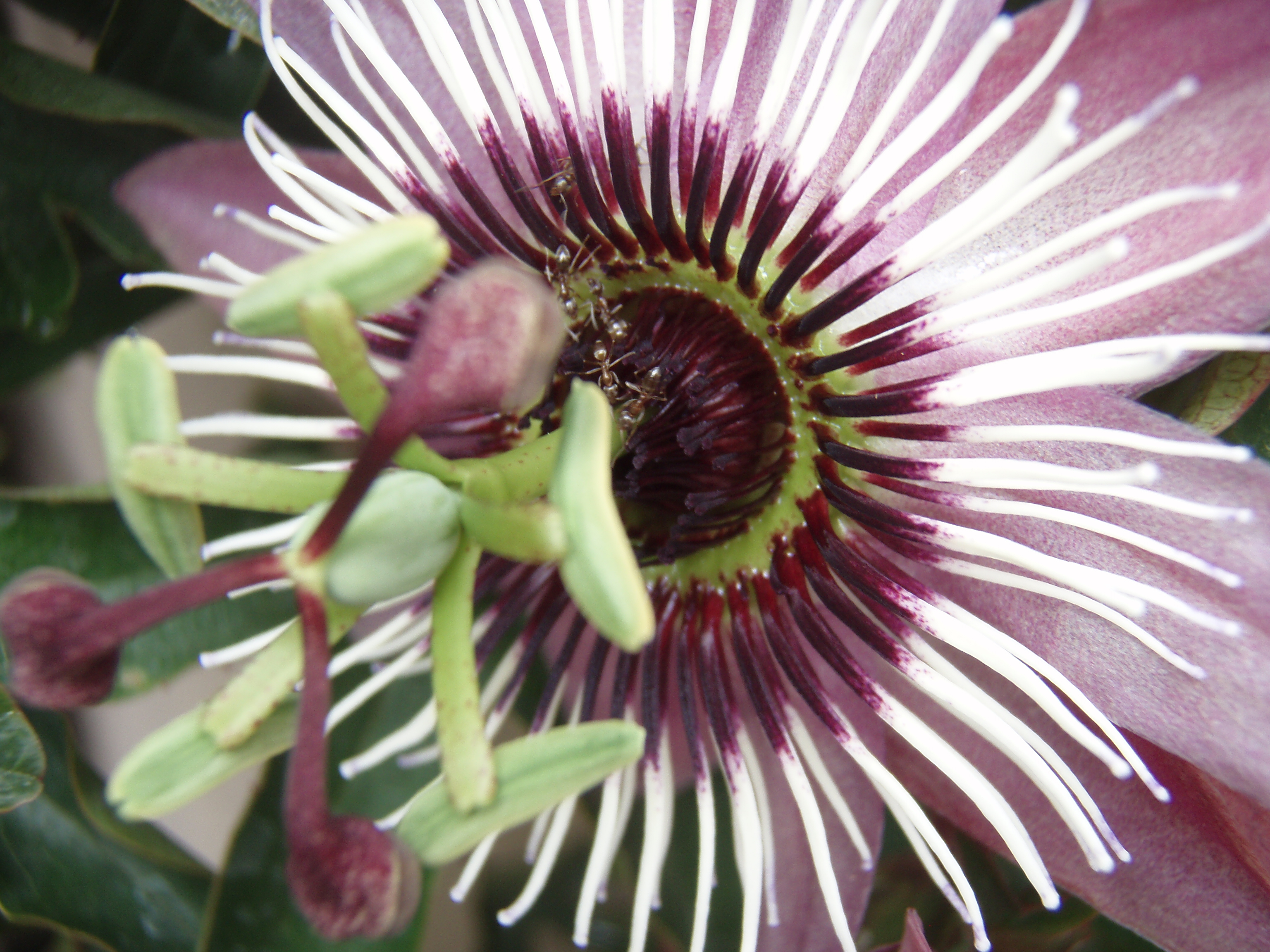 ants in passion flora